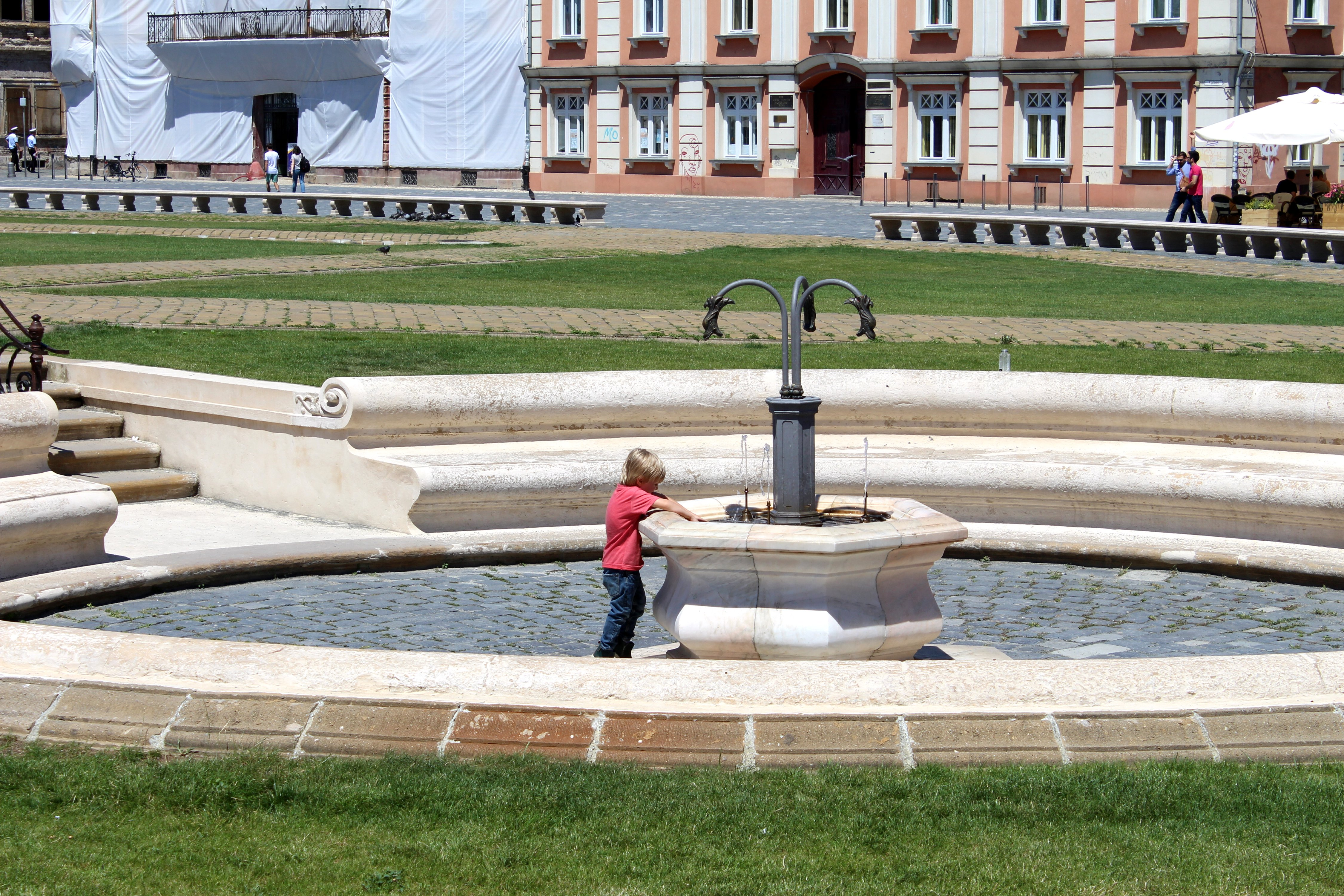 Fountain of Unirii Square, Timisoara, Romania.